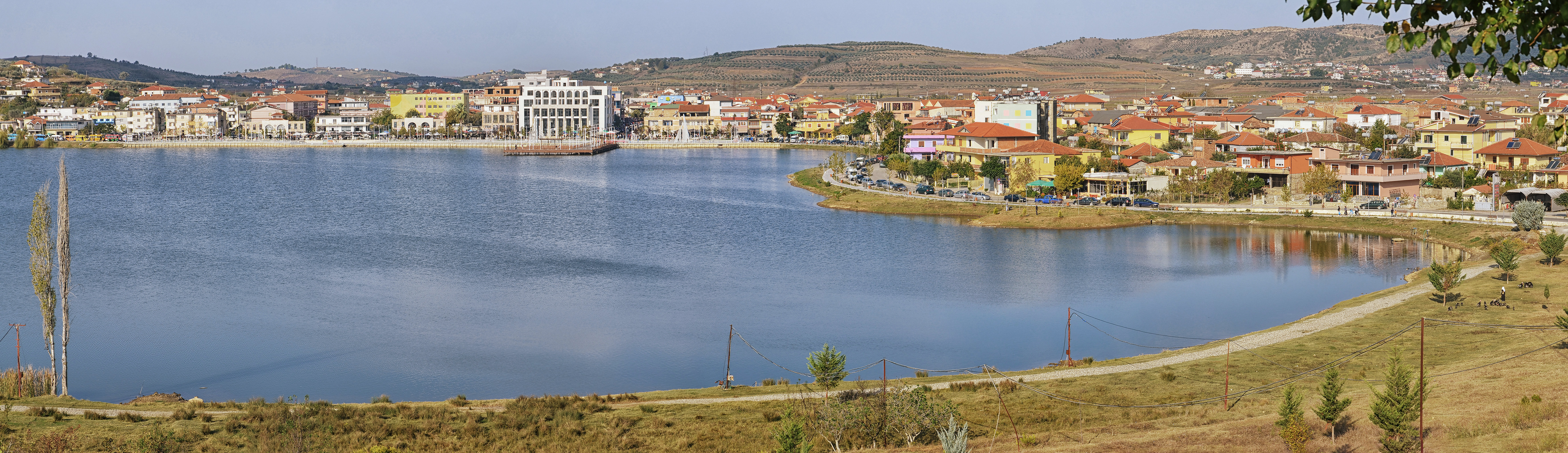 View on Belsh, Albania from east